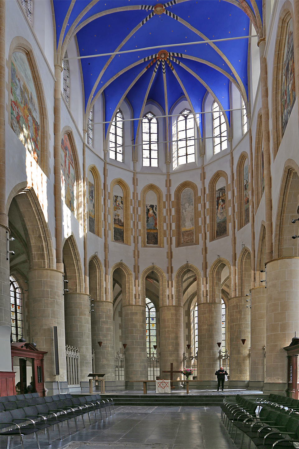 Martinikerk is the oldest and largest church in the Dutch city of Groningen. The Romanesque-Gothic basilica of the 13th century has one of the largest Baroque organ in the Netherlands.